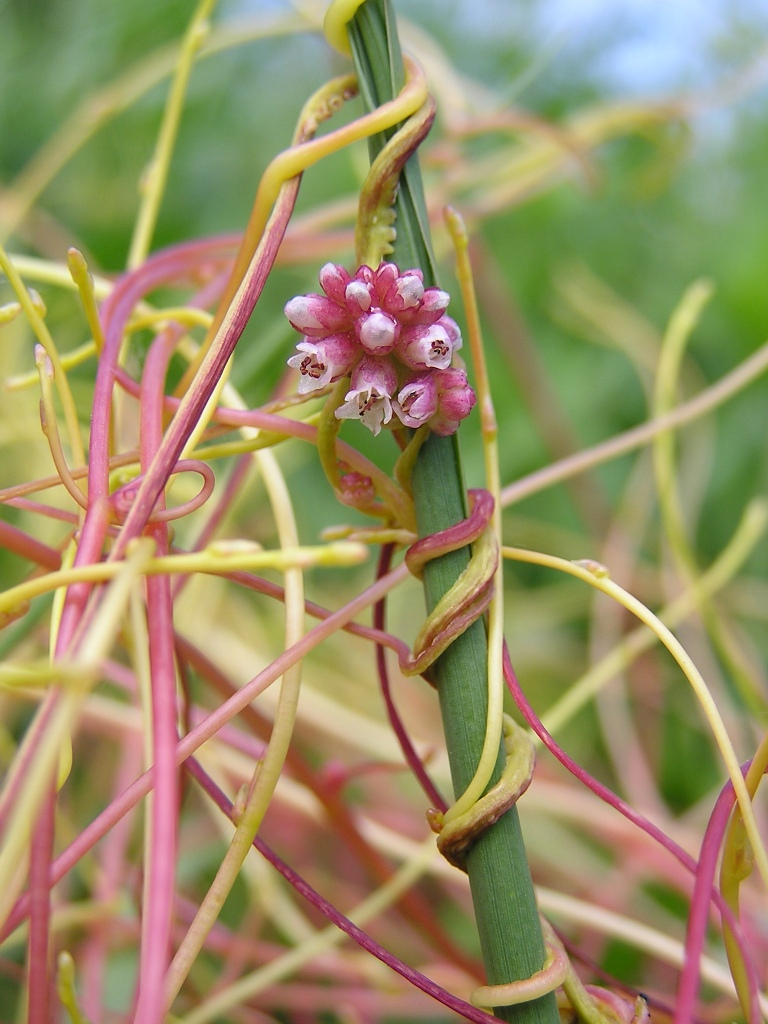 Cuscuta europaea in Bonner at the bank of the Rhine